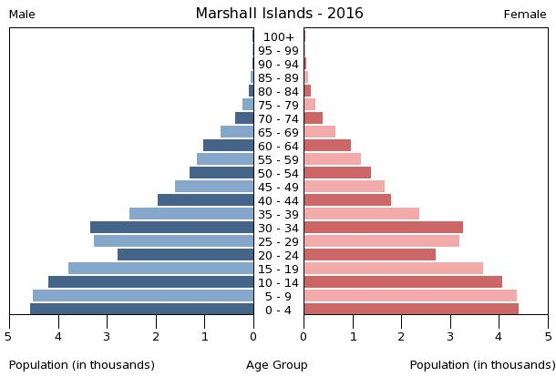 The population pyramid of the Marshall Islands illustrates the age and sex structure of population and may provide insights about political and social stability, as well as economic development. The population is distributed along the horizontal axis, with males shown on the left and females on the right. The male and female populations are broken down into 5-year age groups represented as horizontal bars along the vertical axis, with the youngest age groups at the bottom and the oldest at the top. The shape of the population pyramid gradually evolves over time based on fertility, mortality, and international migration trends.